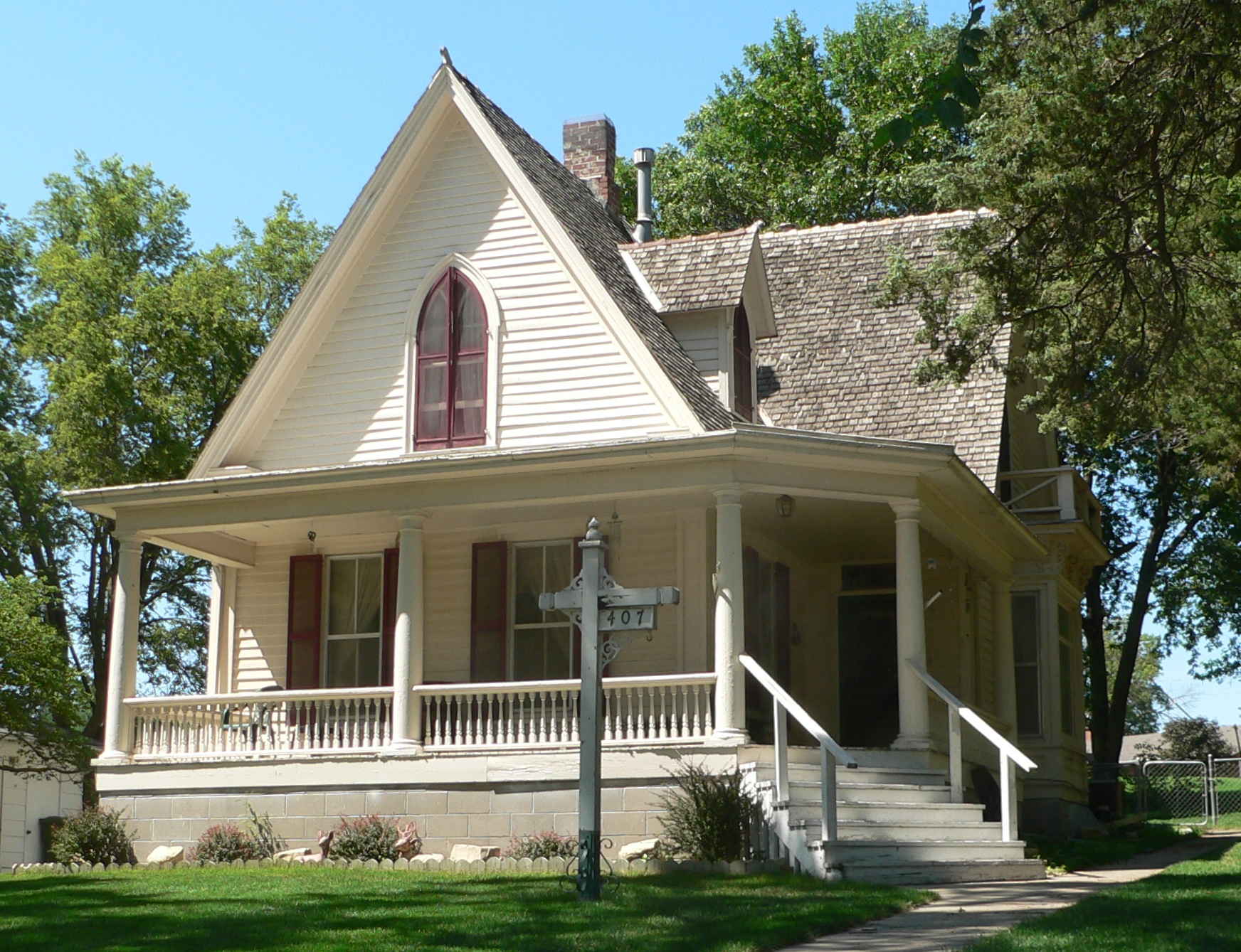 Isaac Newton Clark House at 407 W. Cedar Street in Sutton, Nebraska; seen from the southeast. The Gothic Revival building was constructed in 1877. It is listed in the National Register of Historic Places.